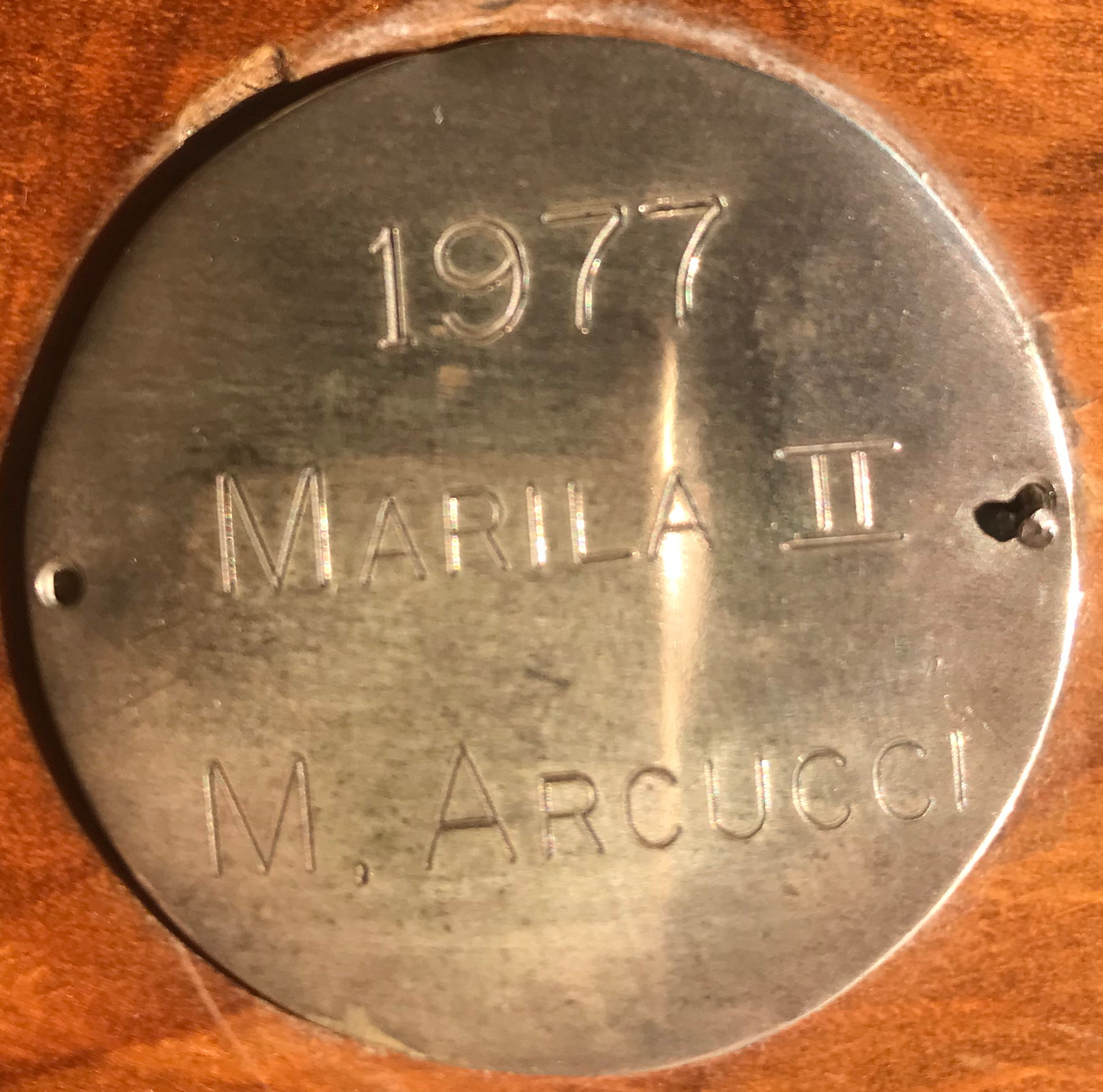 Patch on the Trophy